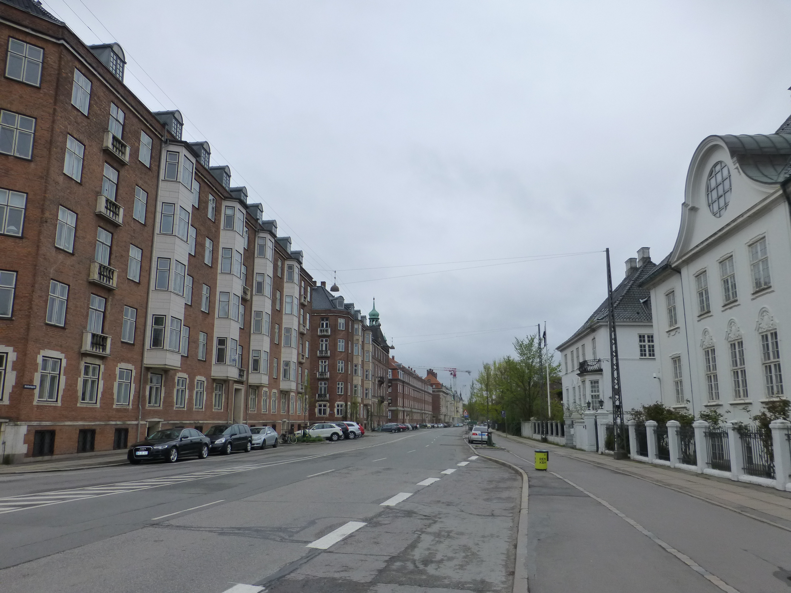 The street Kristianiagade at Fridtjof Nansens Plads in Østerbro in Copenhagen.